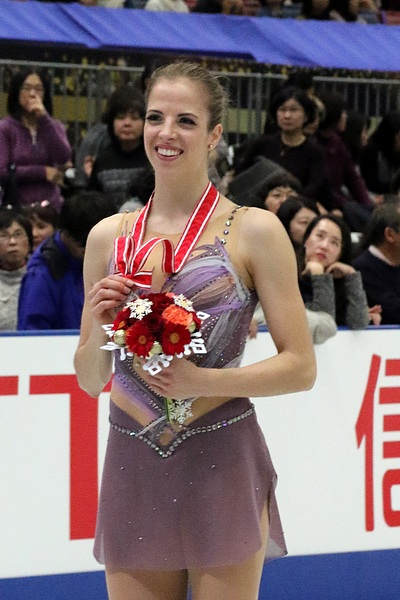 Photos – NHK Trophy 2017 – Ladies (Medalists)